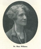 Portrait